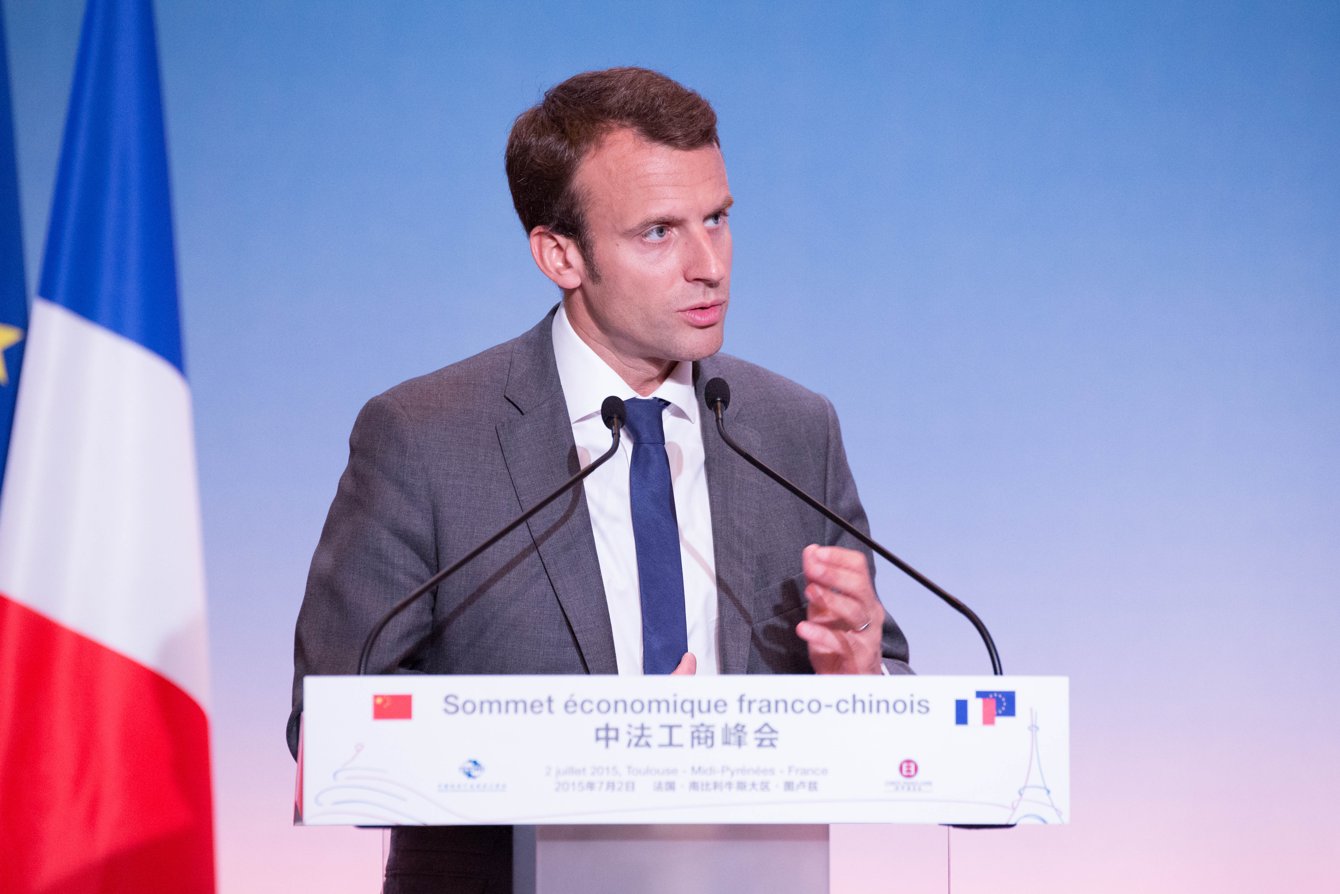 Emmanuel Macron at Sommet économique franco-chinois